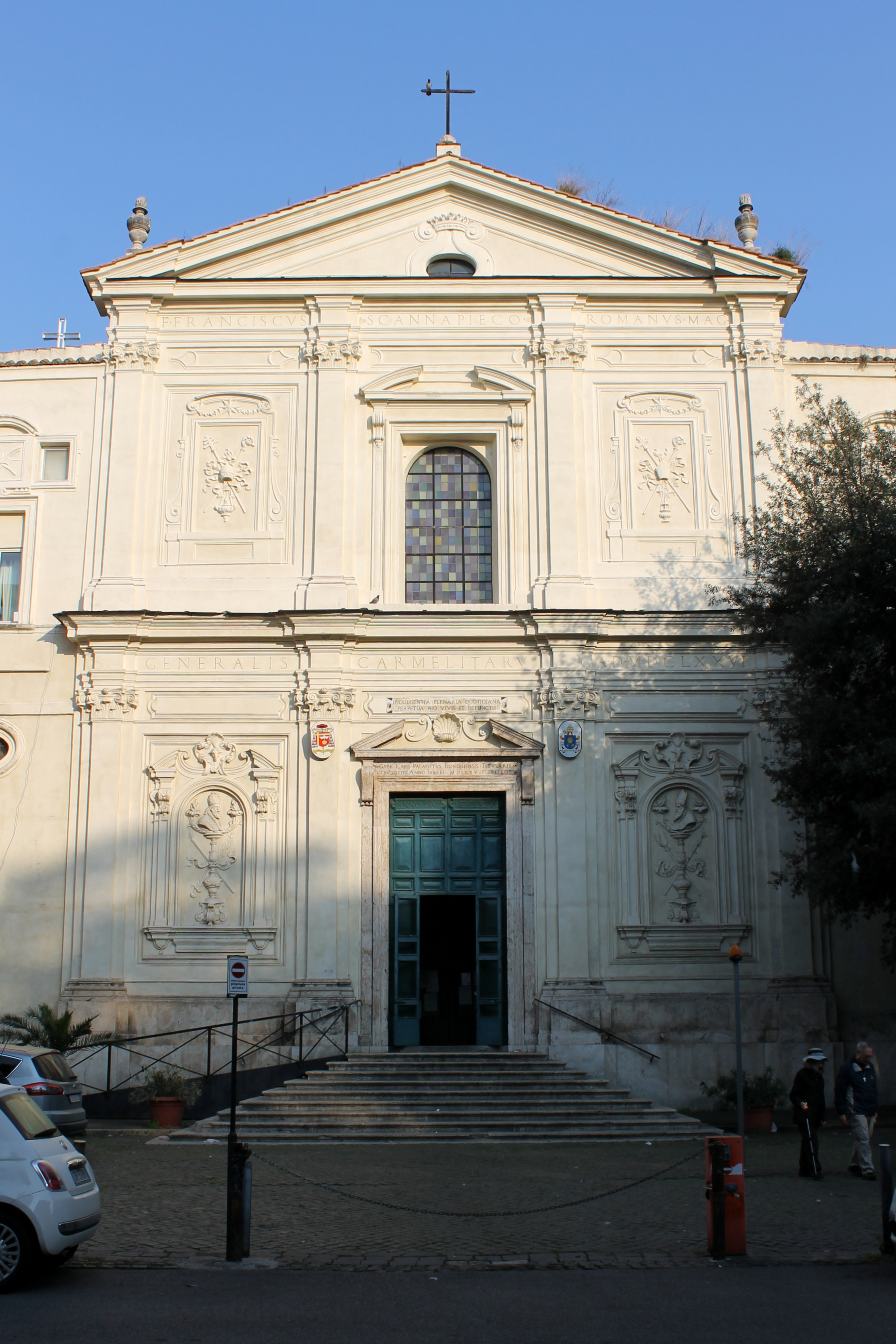 The facade of the church of San Martino ai Monti as it appeared in March 2015.